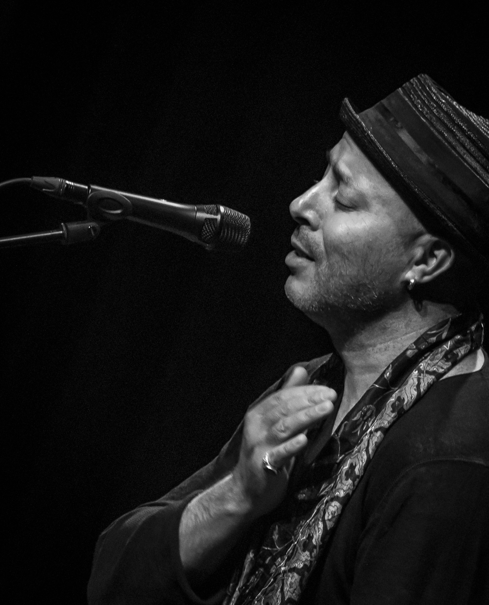 Dhafer Youssef performing with Bugge Wesseltoft and Wolfgang Muthspiel at Canal Street music festival, Arendal Norway, July 2015.